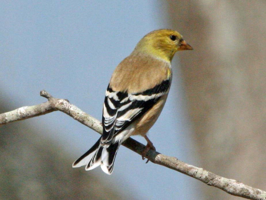 American Goldfinch (Carduelis tristis) in transition to breeding plumage - Ash, North Carolina